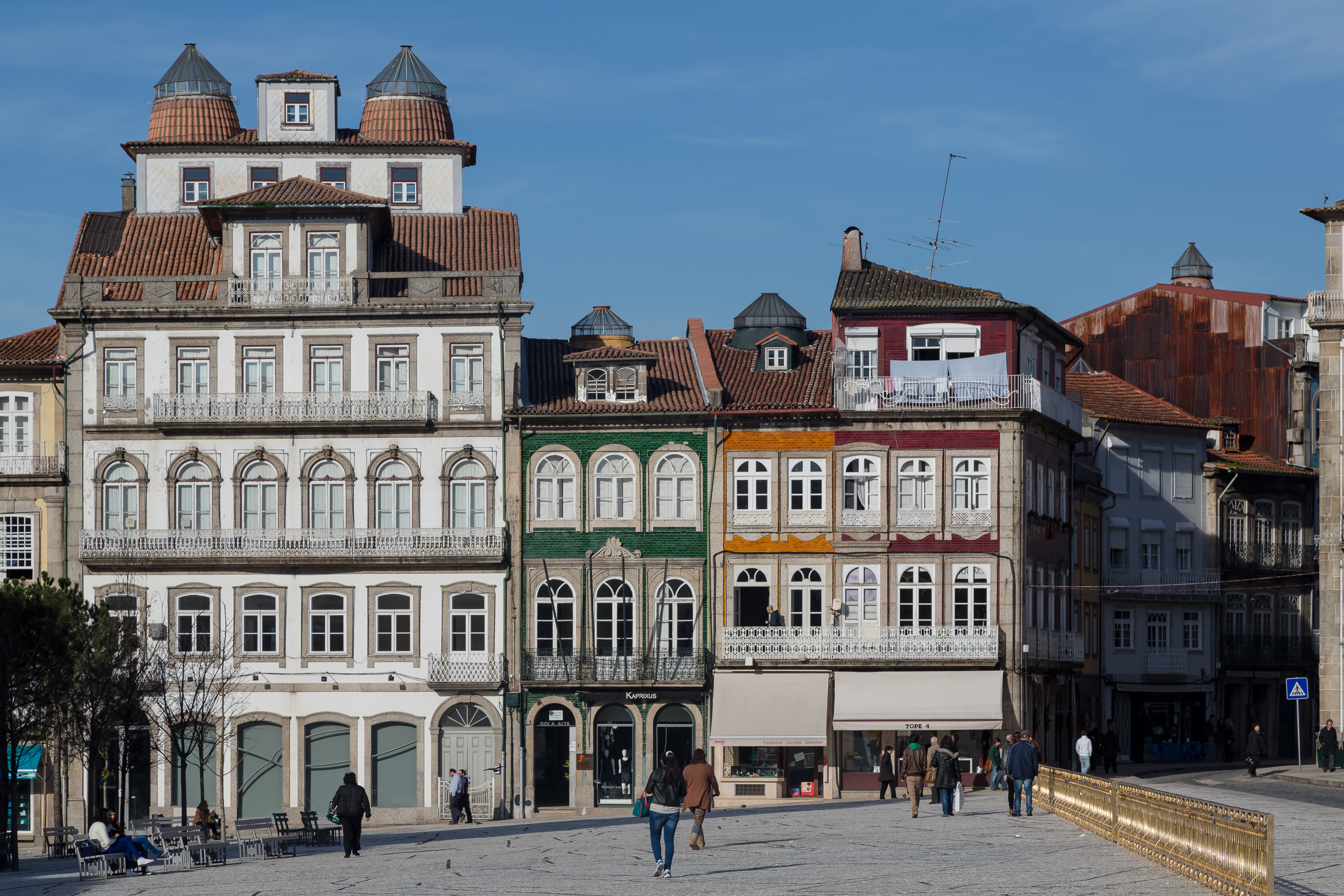 Guimaraes, Portugal: Largo do Toural